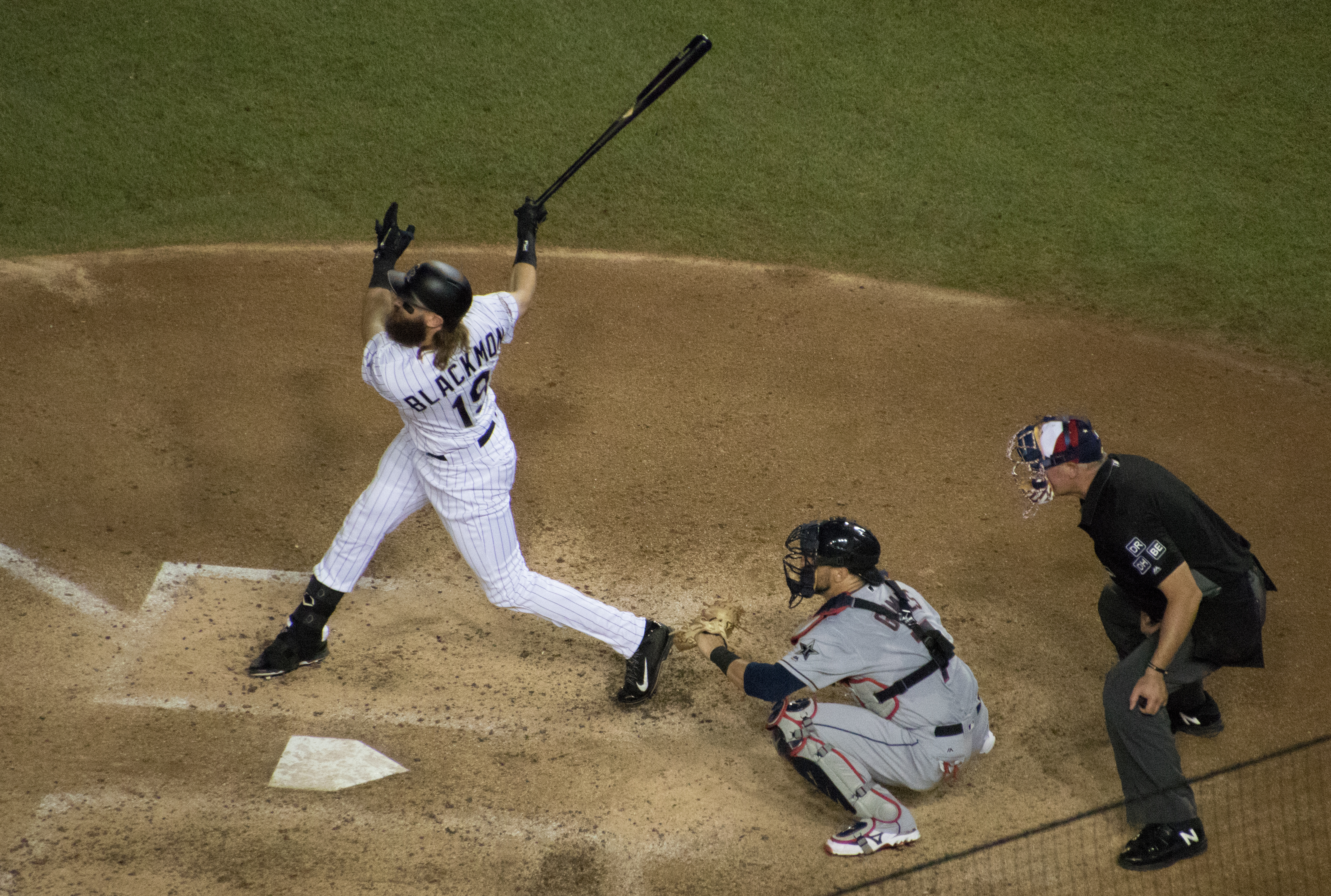 2018 MLB All Star Game: Charlie Blackman, Colorado Rockies